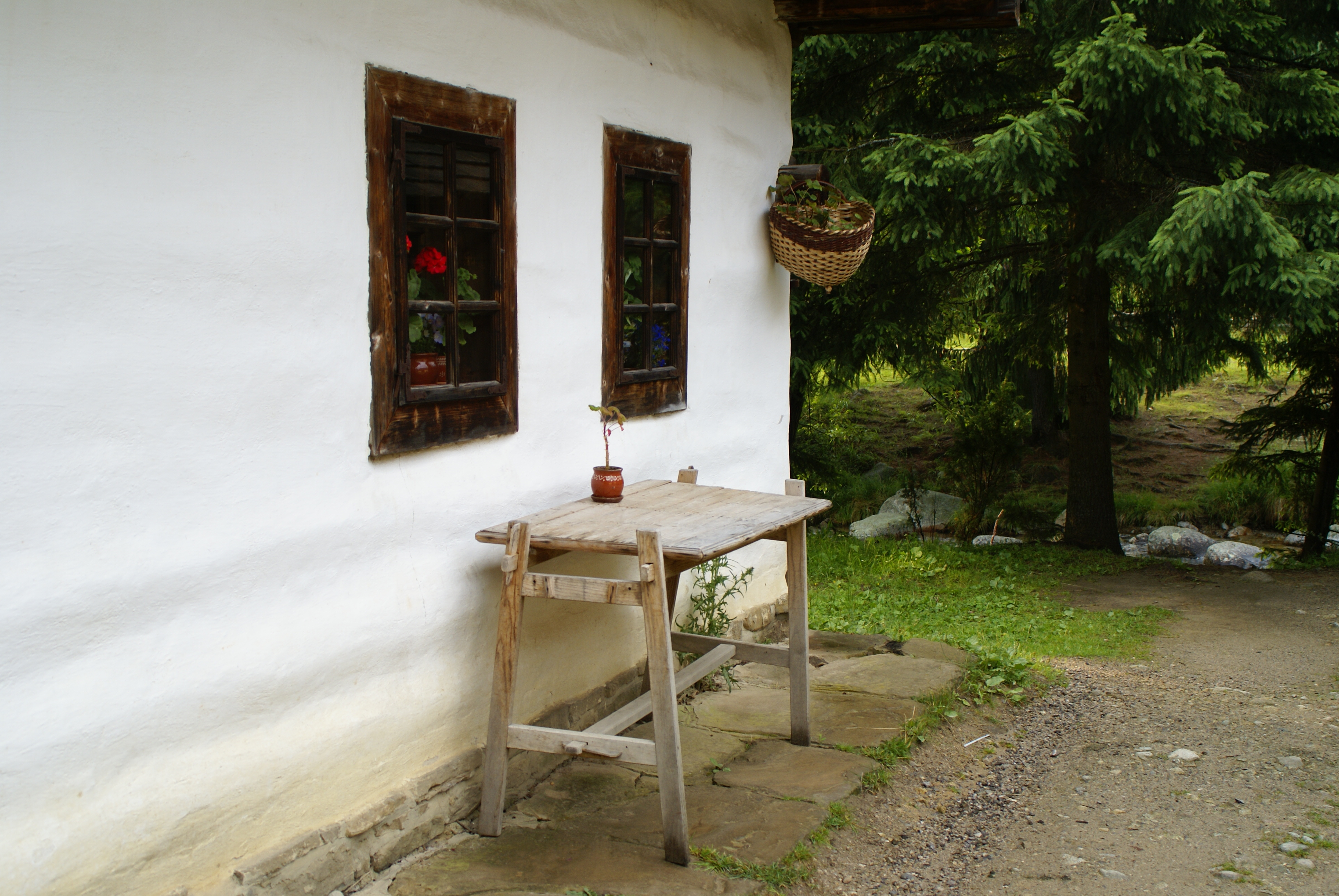 Open air museum of typical slovakian old Orava village, Zuberec, West Tatras, Slovak Republic